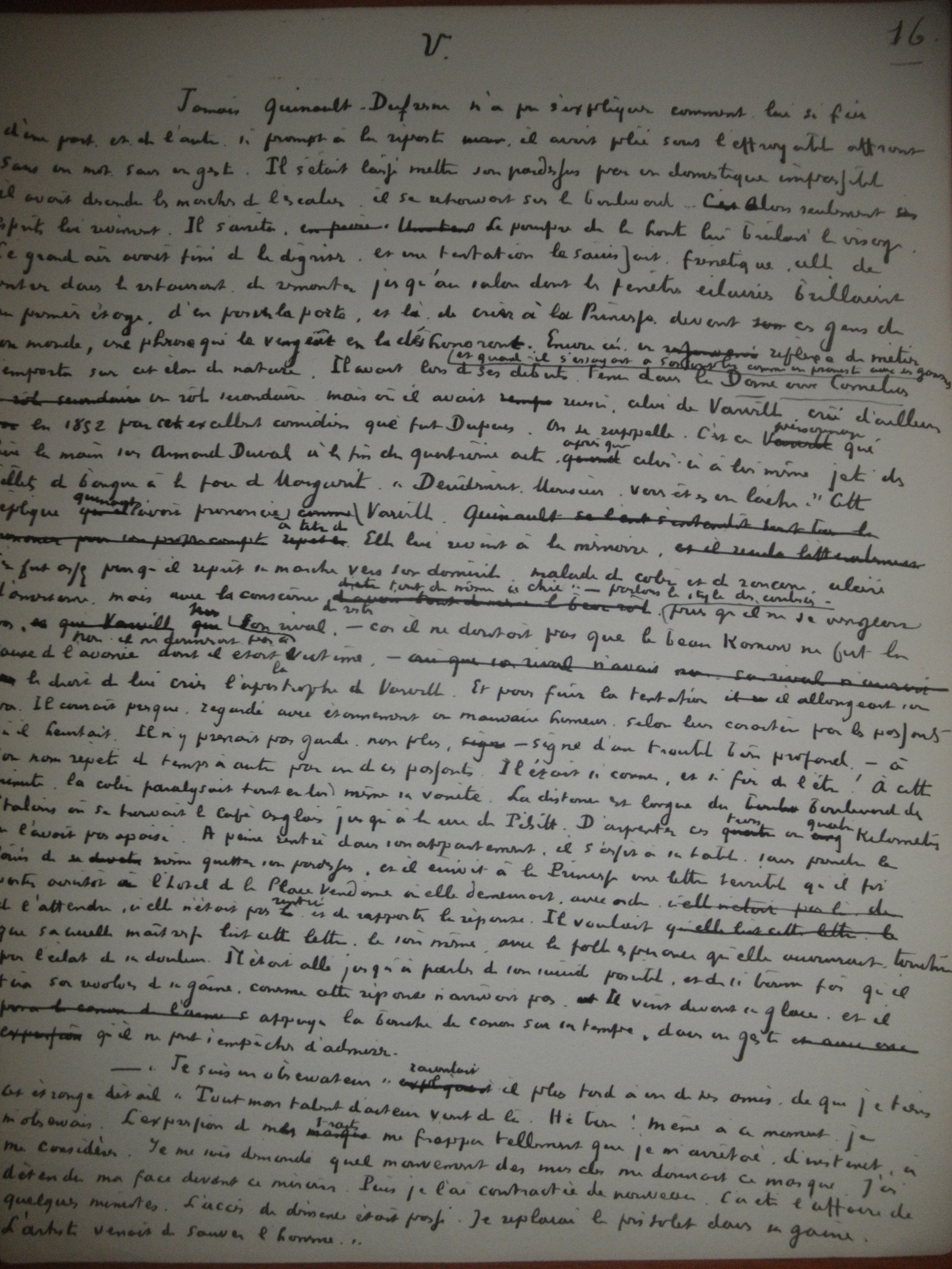 beau role